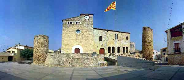 Bellcaire d'Empordà